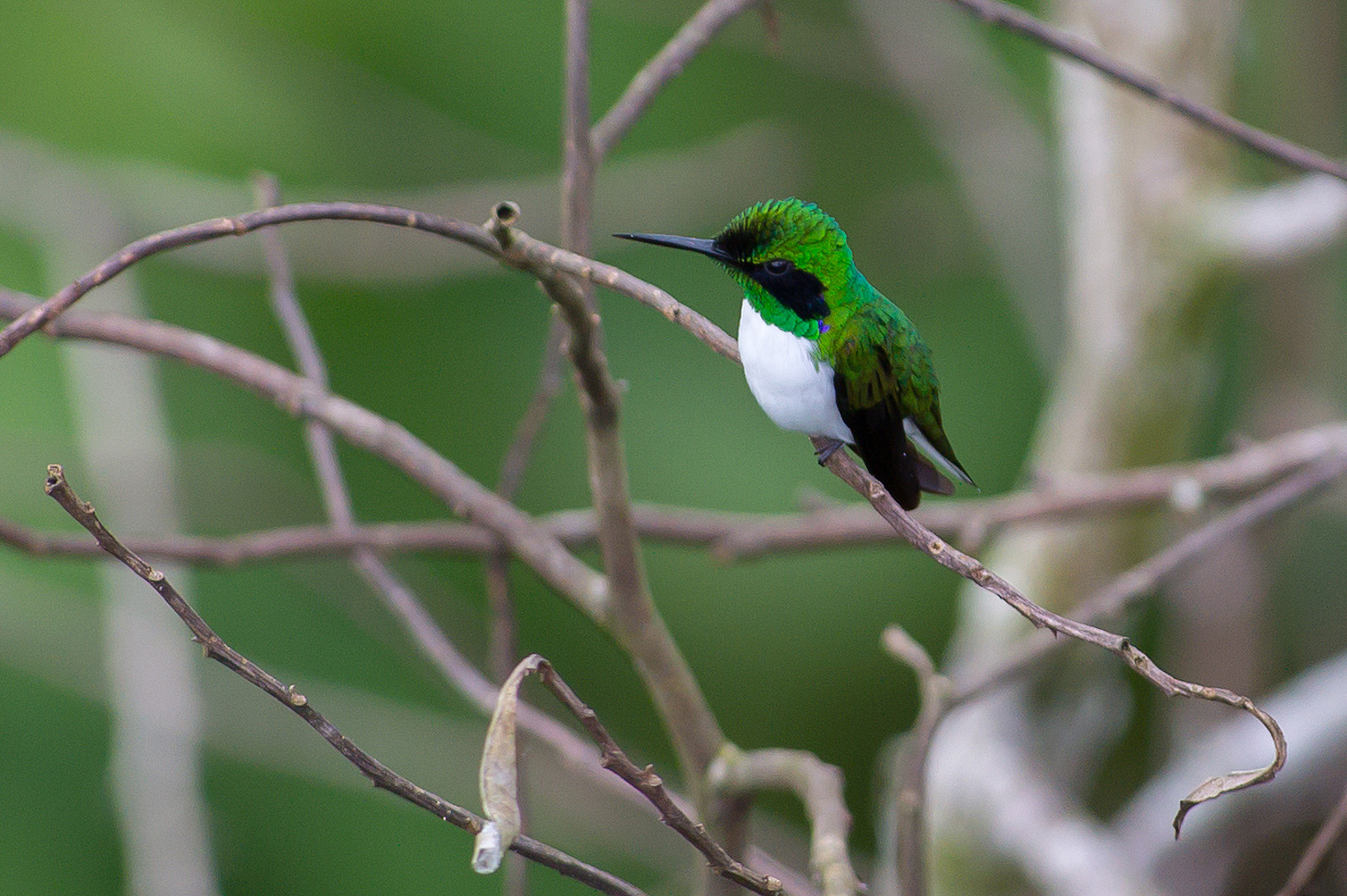 Heliothryx aurita Black-eared Fairy